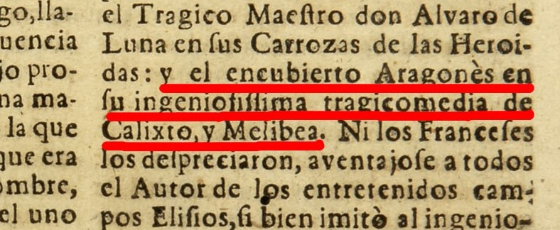 Portion of Lorenzo Gracian Book (1669) showing el encubierto aragones